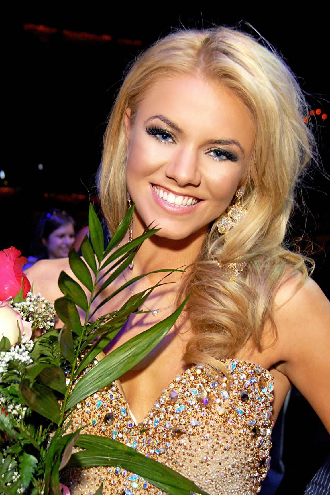 Katie Blair attending the Miss California Pageant, Palm Desert, CA on November 21, 2010